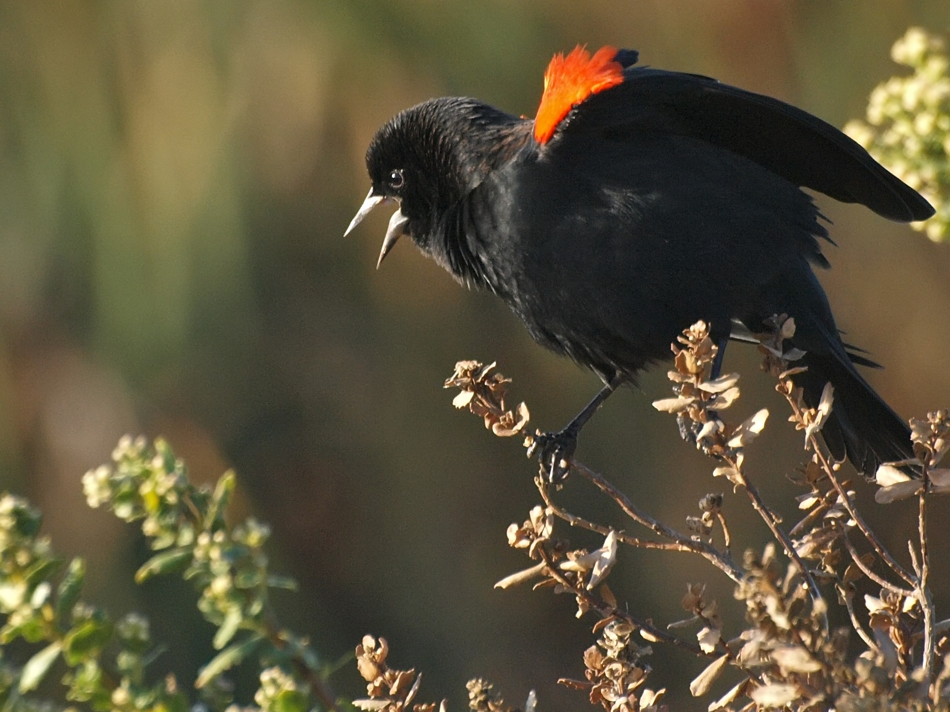 Red-winged Blackbird - Las Gallinas Wildlife Ponds in San Rafael, CA